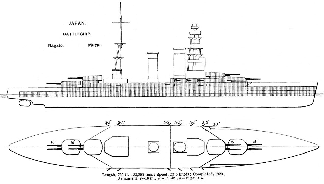 Right elevation and deck plan diagrams depicting Japanese Nagato class battleship.